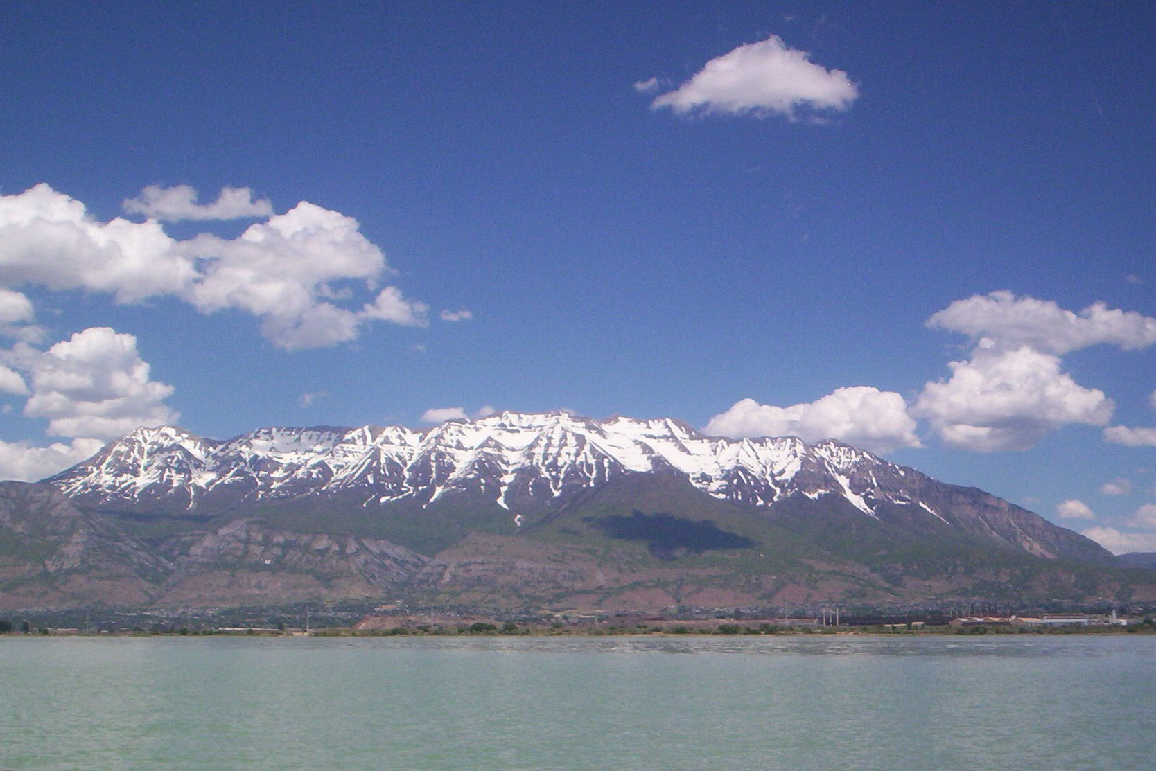 Utah Lake by boat - View of Mount Timpanogos